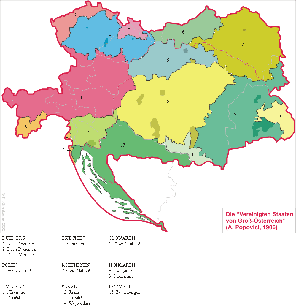 Proposed United States of Greater Austria, 1906